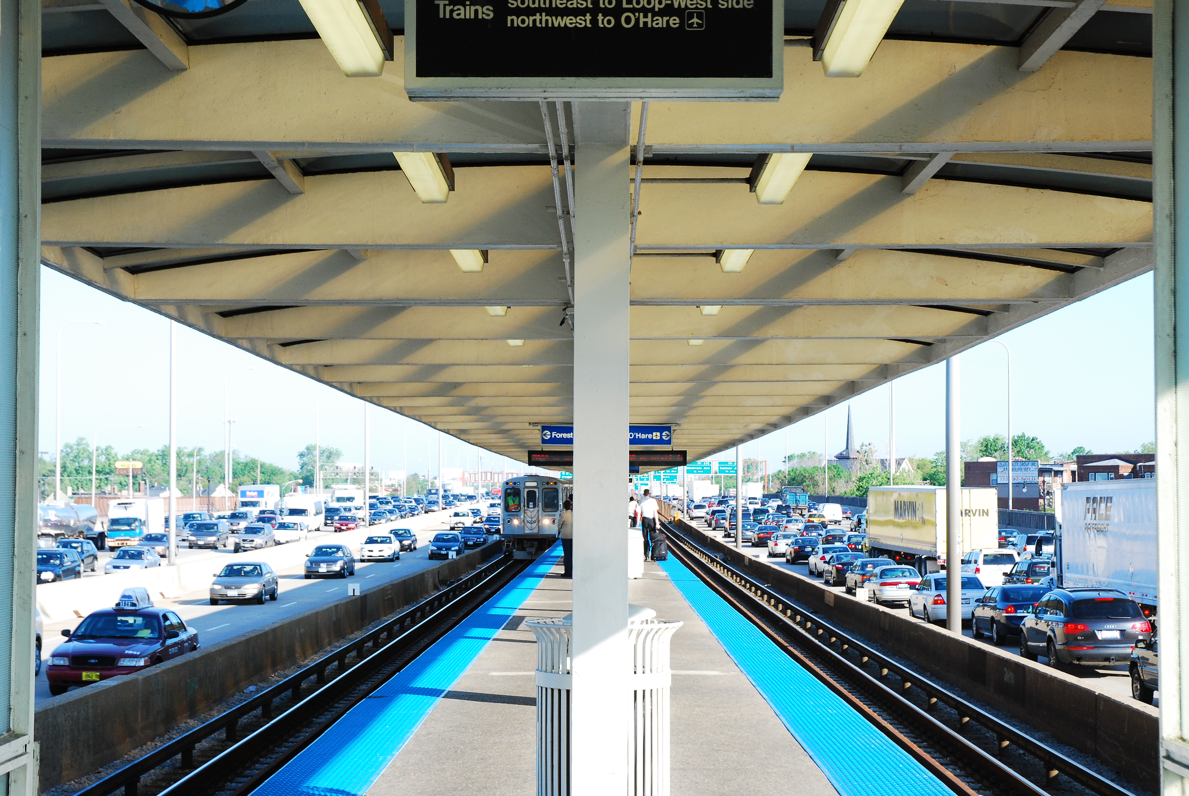 Chicago "L" Blue Line - Irving Park station